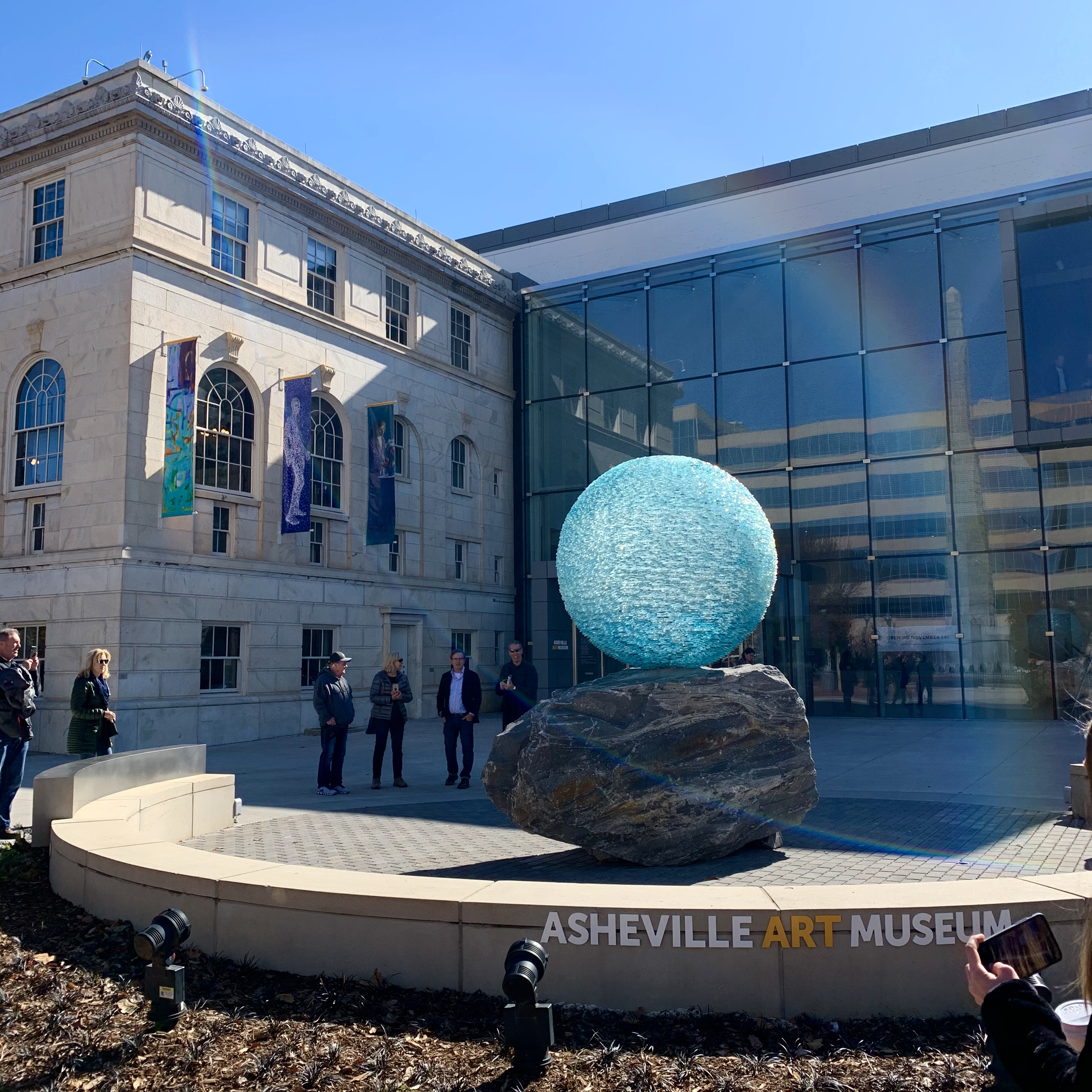 "Reflections on Unity" is a chiseled glass orb sculpture by the artist Henry Richardson. It is in the public plaza in front of the Asheville Art Museum in Asheville, NC.